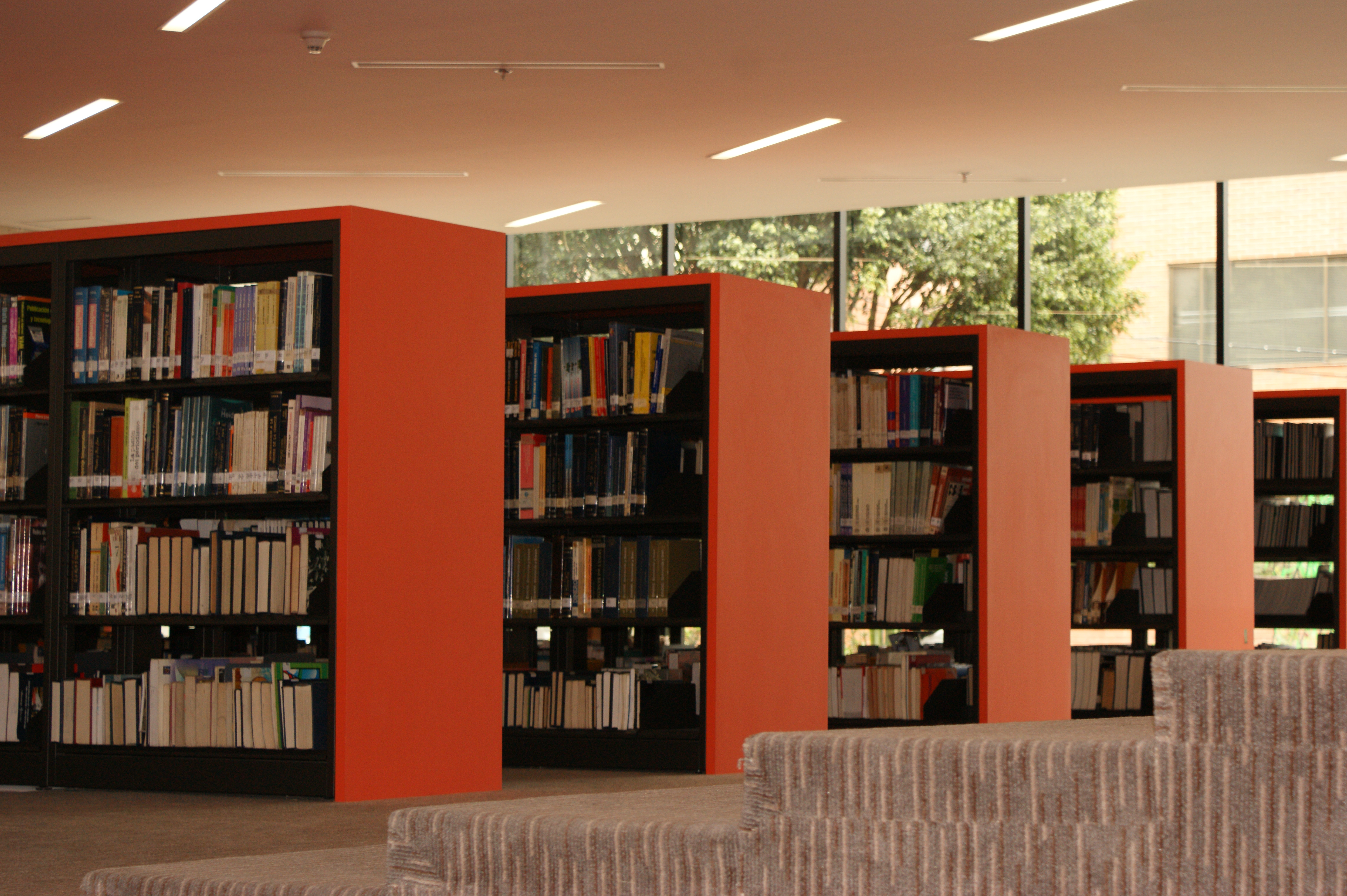 EAN University - Hildebrando Perico Afanador Library - Bogotá, Colombia